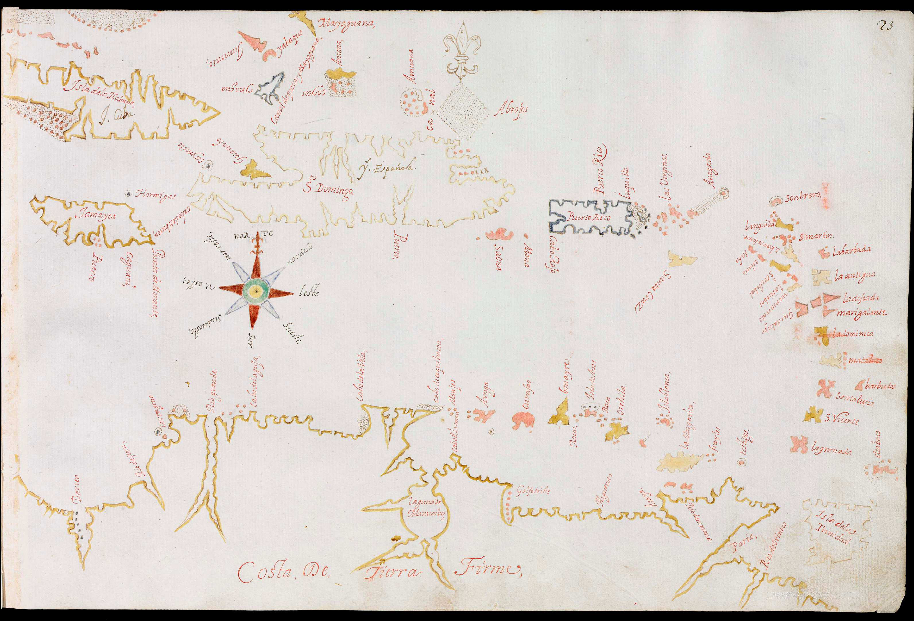 Page 23 of the Descripciones geográphicas e hydrográphicas de muchas tierras y mares del Norte y Sur en las Indias, en especial del descubrimiento del Reino de la California (Geographic and hydrographic descriptions of many northern and southern lands and seas in the Indies, specifically the discovery of the kingdom of California), written by captain Nicolás de Cardona after his expedition of 1614.